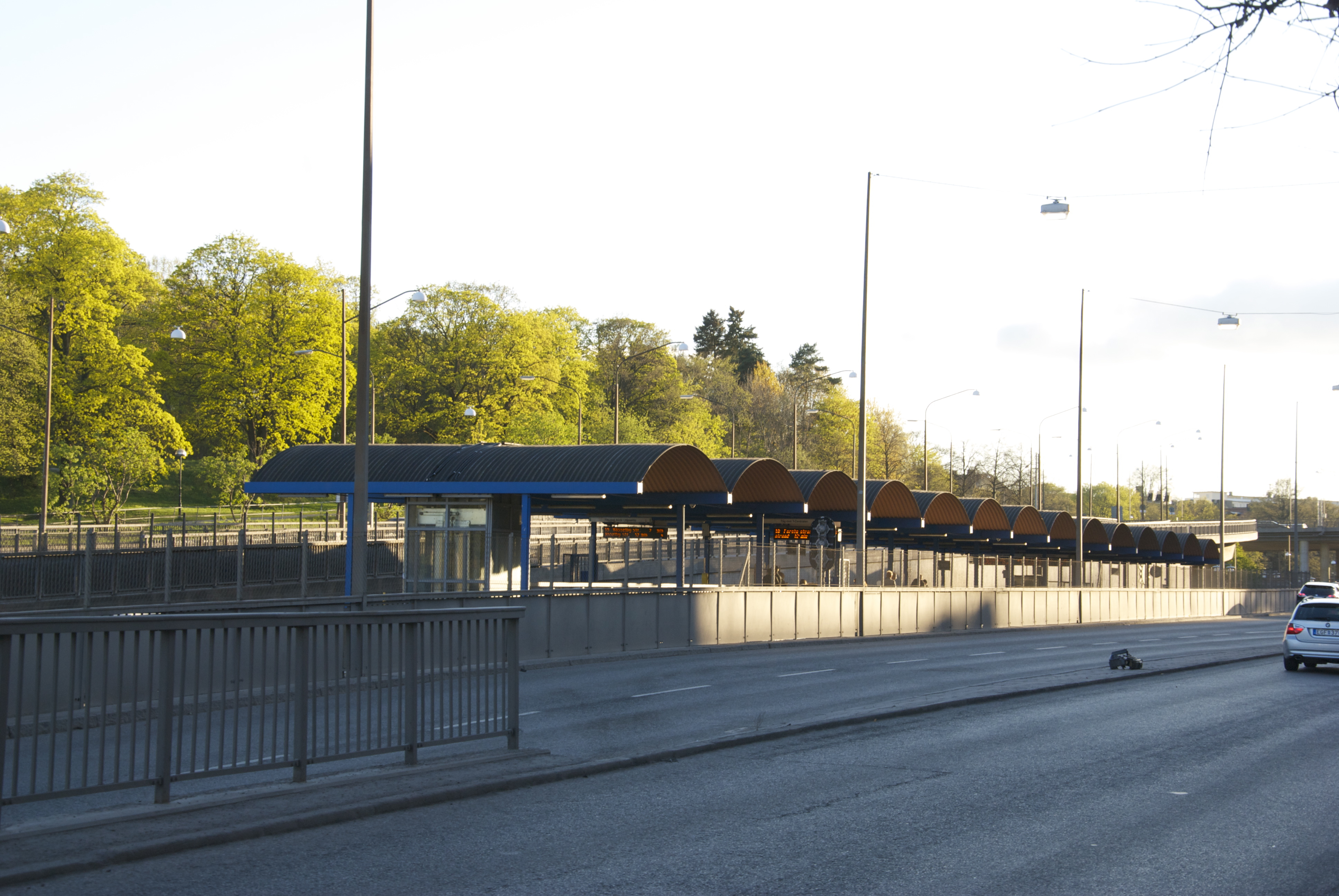 Thorildsplan Metro station